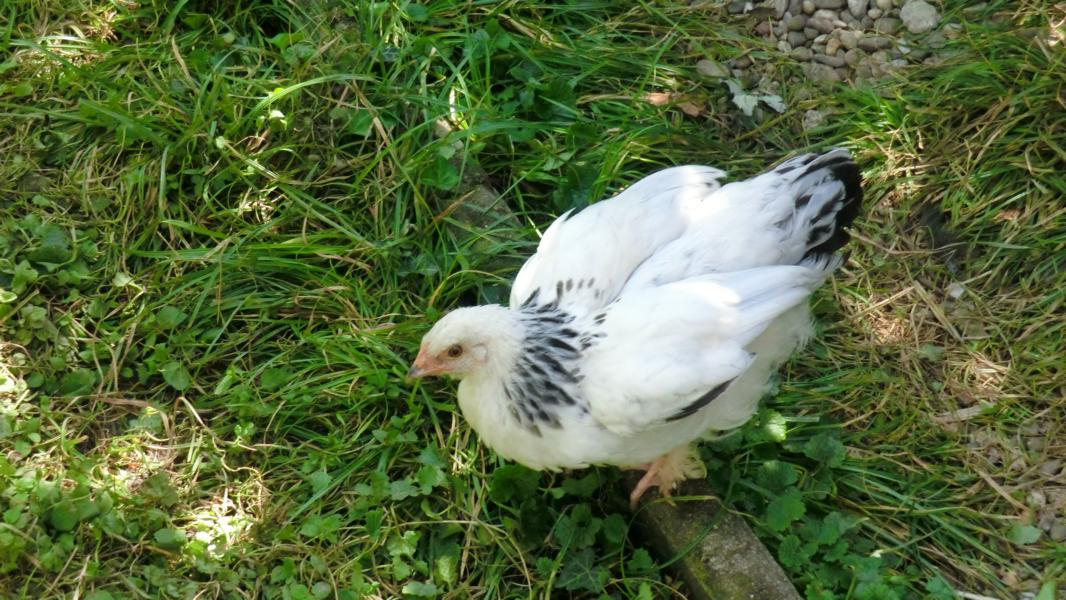 young chicken of Sundheimer